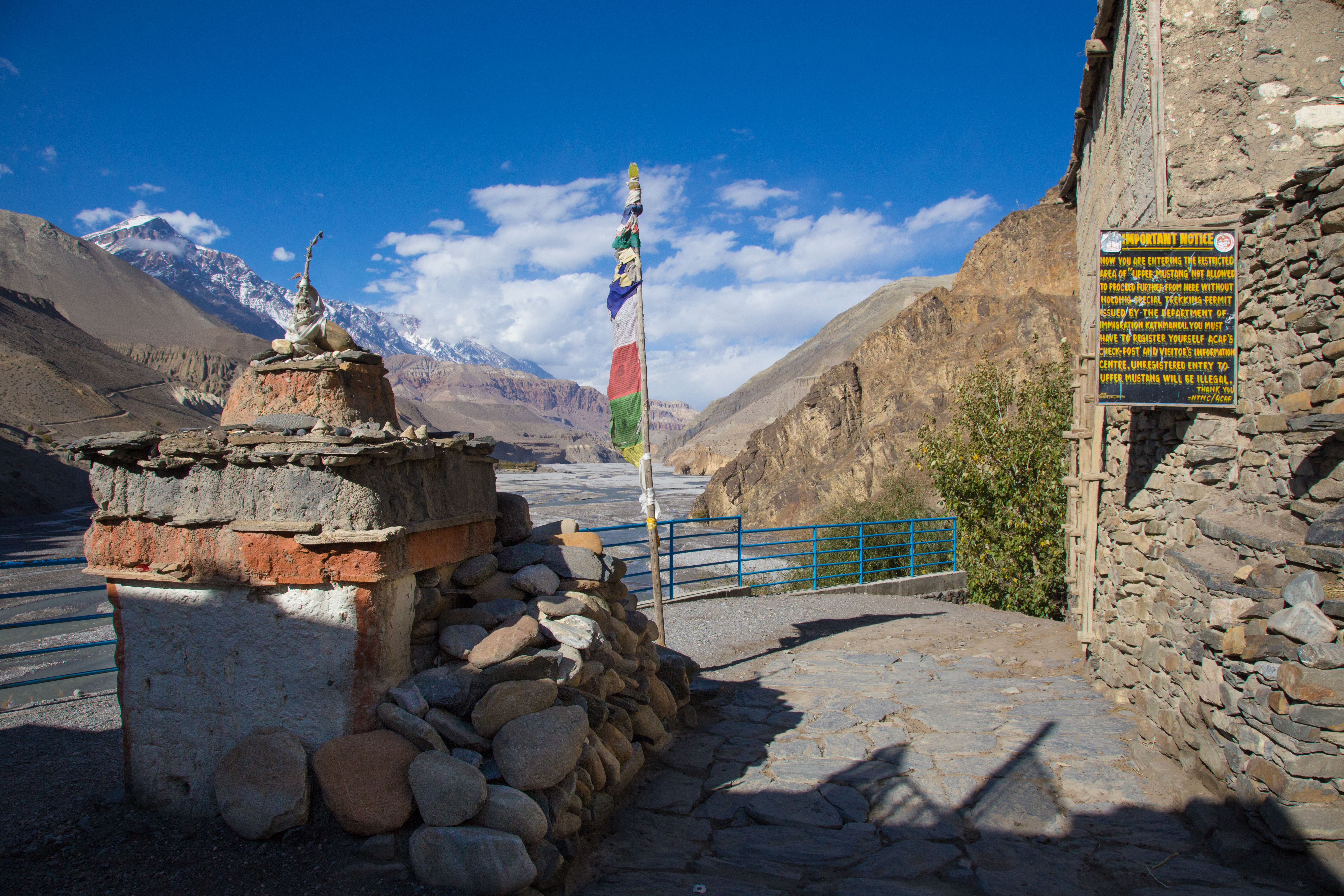 Now you are entering the restricted area of “Upper Mustang”. It is not allowed to proceed further from here without holding special trekking permit issues by the department of immigration, Kathmandu. You must have to register yourself at ACAP’S check-post and visitor’s information centre. Illegal entry to Upper Mustang will be illegal. Thank you. -- NTNC/ACAP Prior to the 1990’s, less than a dozen visitors from the West knew what lay concealed behind the barrier of the 8000m high Annapurnas and Dhaulagiri. The best-known amongst these are probably Toni Hagen, a Swiss, who worked for the Nepalese government in the 1950’s as a geologist, Guiseppe Tucci, who travelled in Nepal in the late 1940’s, Herbert Tichy, who was the first European to succeed in crossing western Nepal in 1953 and the Frenchman Michel Peissel, who visited this region in 1964. The Tibetan kingdom of Mustang has belonged to Nepal since 1950, and after China finally absorbed Tibet in 1959, Khampas, with the support of the CIA, conducted a guerrilla war from here against the occupiers of Tibet. Since access to the region is very easy to control, the Nepalese government kept the kingdom hermetically sealed. Since the summer of 1992, Mustang has been opened up to so-called “gentle tourism”. After paying quite a substantial daily charge, visitors can travel through Mustang with guides from a trekking agency licensed by the government. -- Jaroslav Poncar, Himalayan Kingdoms